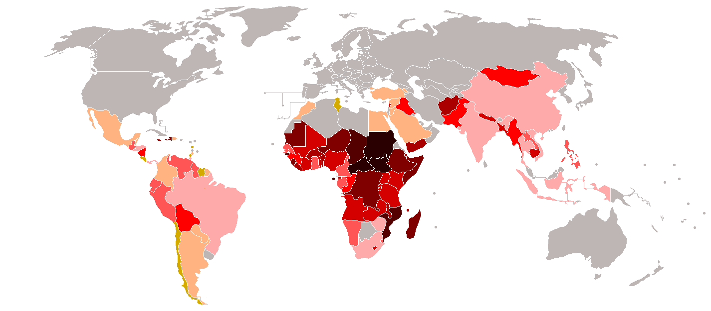 Proportion of Urban Population living in Slums in 2014 (%) based on United Nations Human Settlement Programme (UN-Habitat), Global Urban Indicators Database 2015. ( 0–10% 10–20% 20–30% 30–40% 40–50% 50–60% 60–70% 70–80% 80–90% 90–100% No data available